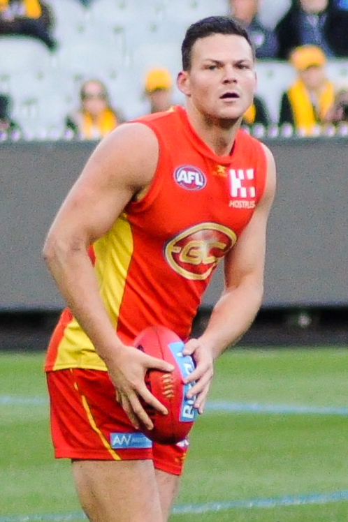 Steven May during the AFL round twelve match between Melbourne and Collingwood on 10 June 2017 at the Melbourne Cricket Ground in Melbourne, Victoria.